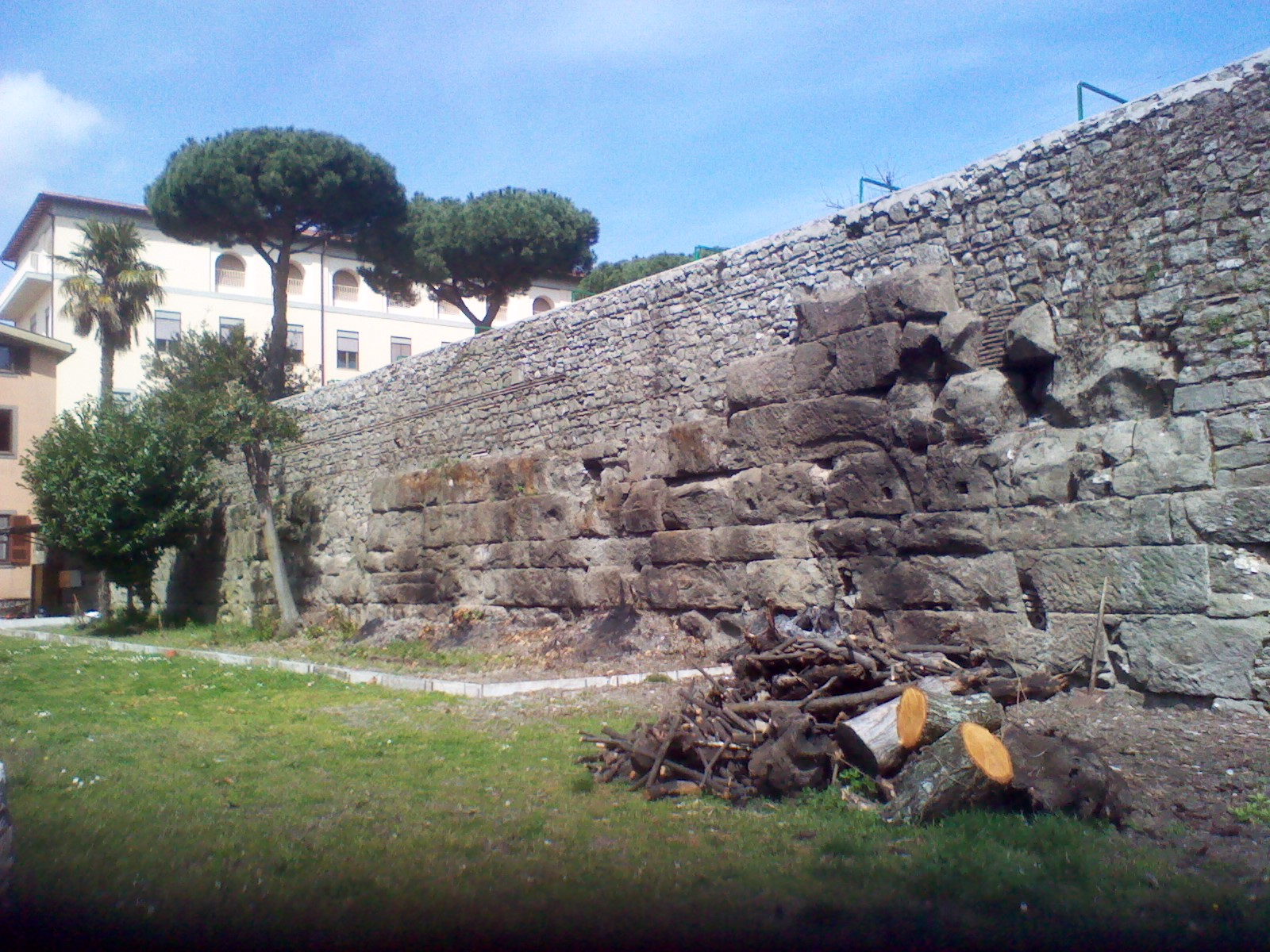 East wall of the Castra Albana (III century a.C.) in Albano Laziale, Italy